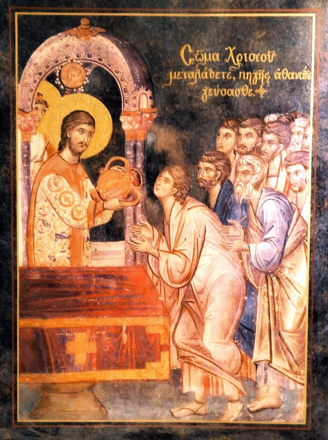 Koinonikon of Pascha - "Receive ye the Body of Christ; taste ye the Fountain of Immortality"